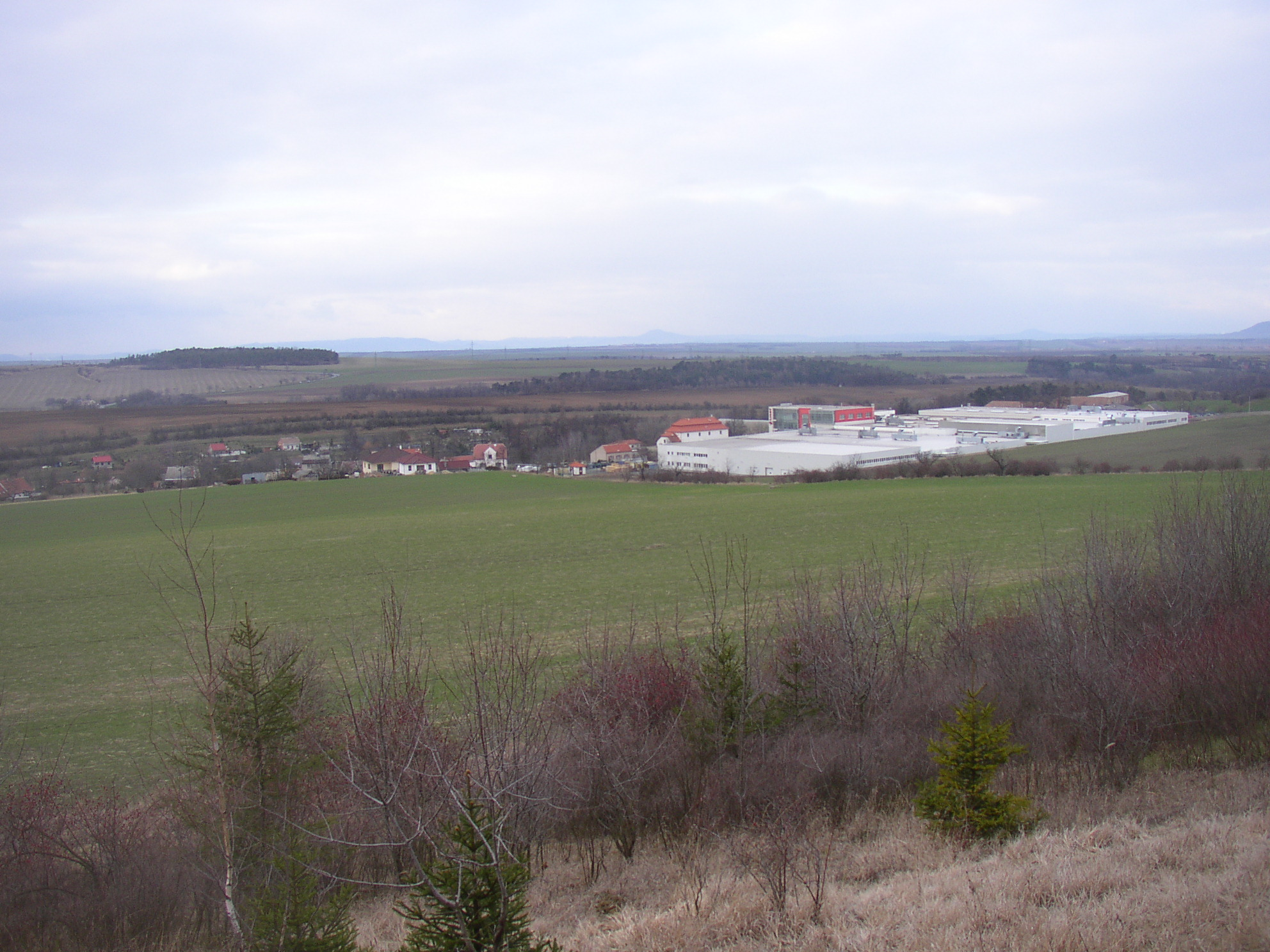 Village of Želevčice (part of Slaný town, Kladno District, Czech Republic) with large factory of Linet company (medical equipment, esp. hospital beds).